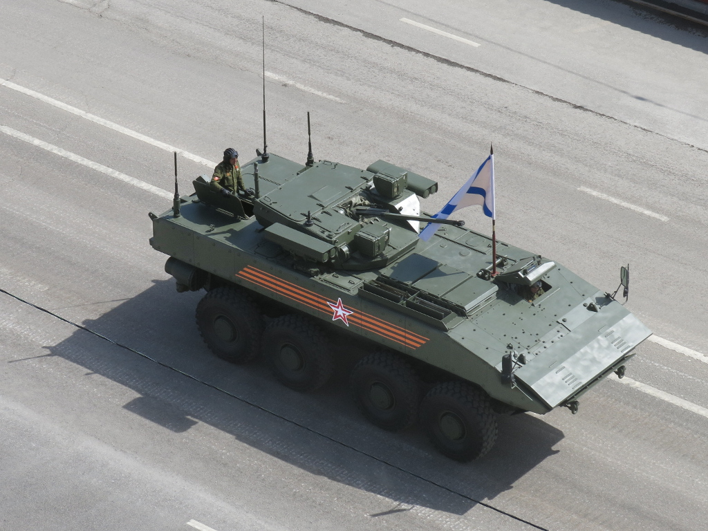 Prototype of Russian IFV Bumerang, view from above, Victory Parade Moscow 2015